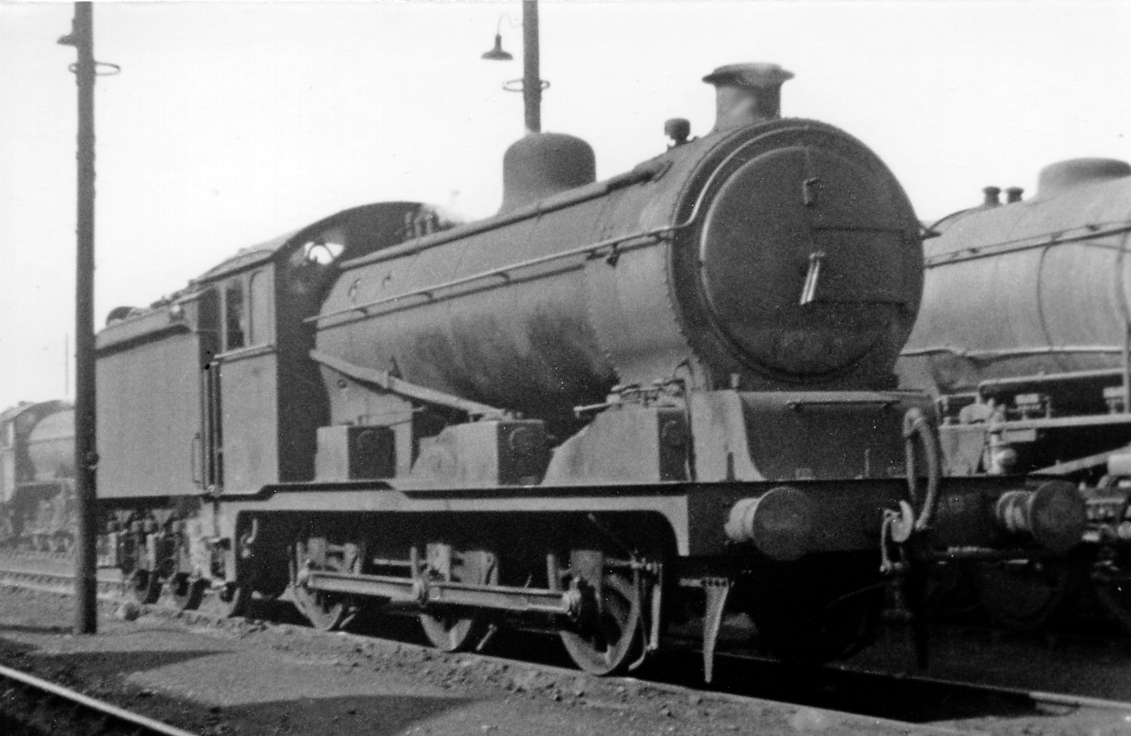 A massive ex-Great Eastern 0-6-0 at March Locomotive Depot. Ex-GE Hill J20 0-6-0 No. 4697 rests along with numerous other freight engines on a Sunday. (See also TL4198 : D16/2 'Super-Claud' 4-4-0 by coaler at March Locomotive Depot).